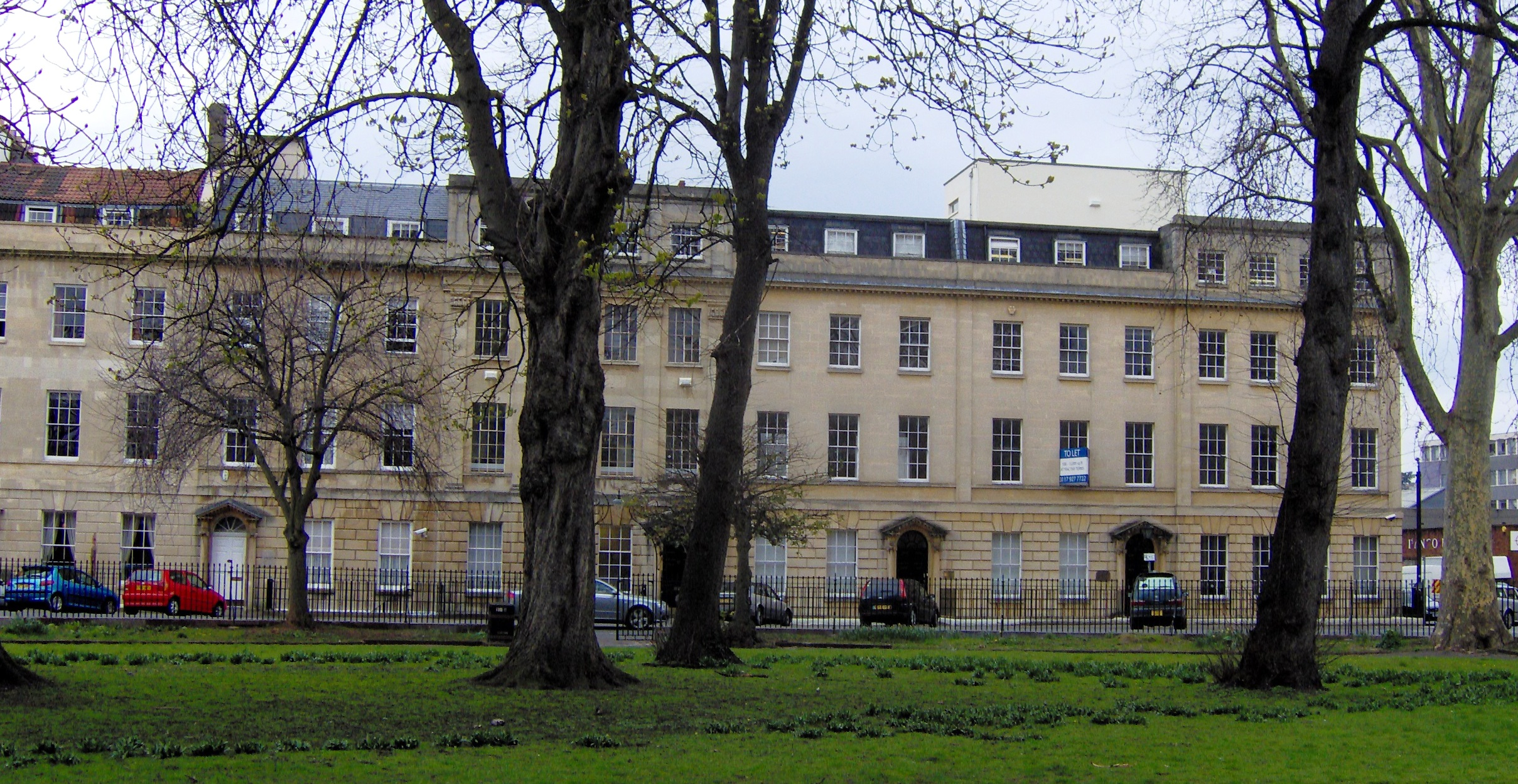 Portland Square, Bristol, North Side. Taken by Rod Ward 23rd Mar 2007